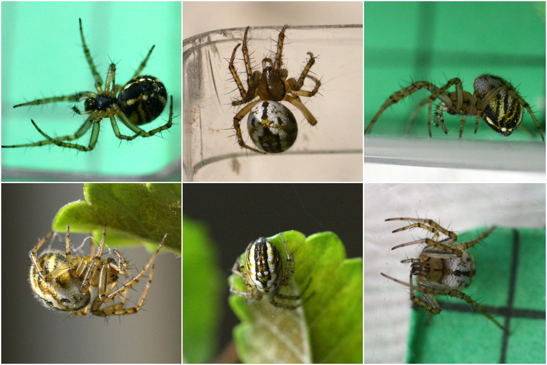 Mangora acalypha (Araneidae). Bricket Wood Common, Hertfordshire, 25.05.2010. More Info... Species Summary from Spider Recording Scheme Map from NBN Gateway Pavouci CZ Jorgen Lissner - female, male Eurospiders